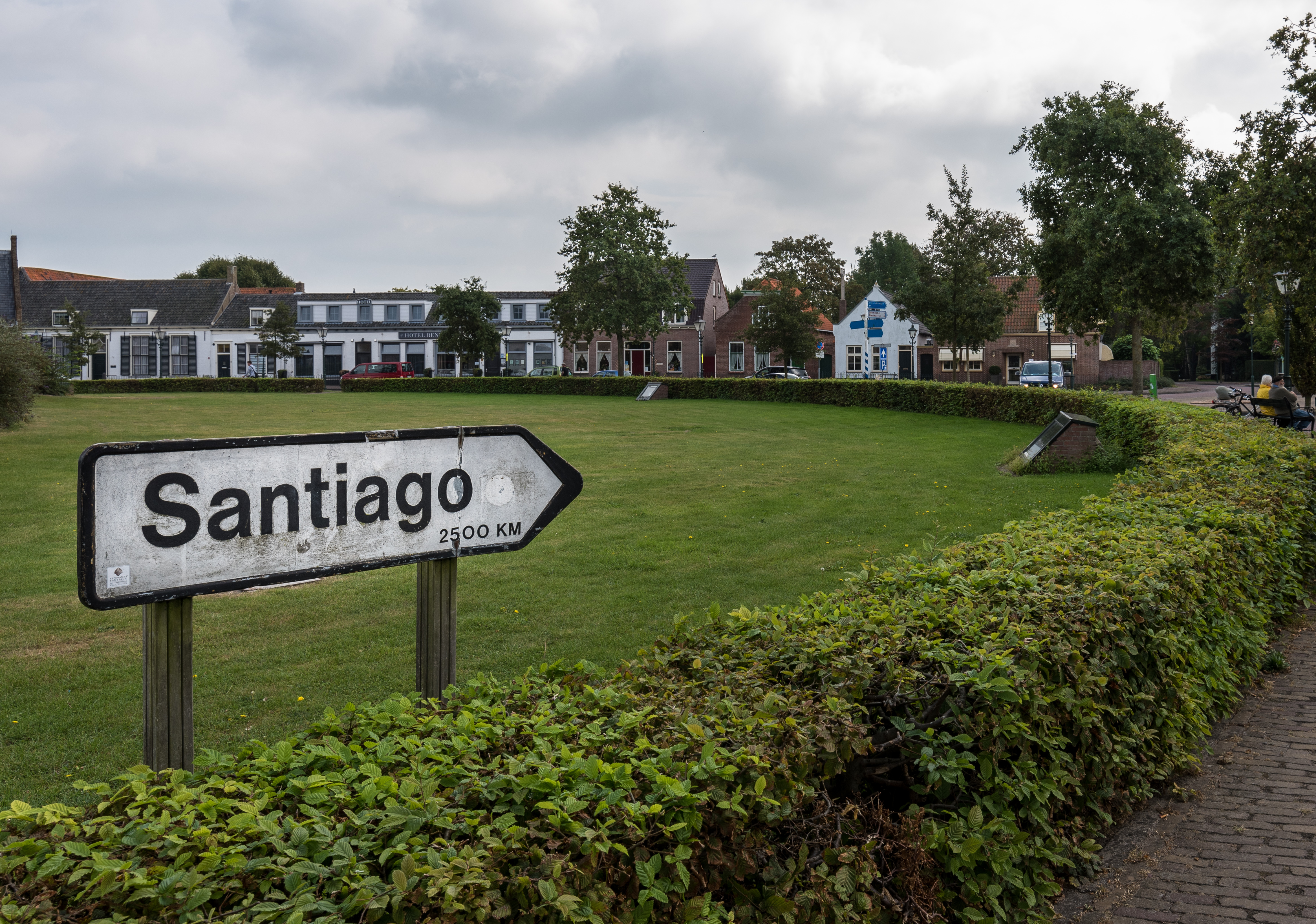 Sign Santiago 2500 km in Renesse, a sign pointing to the Way of Saint James